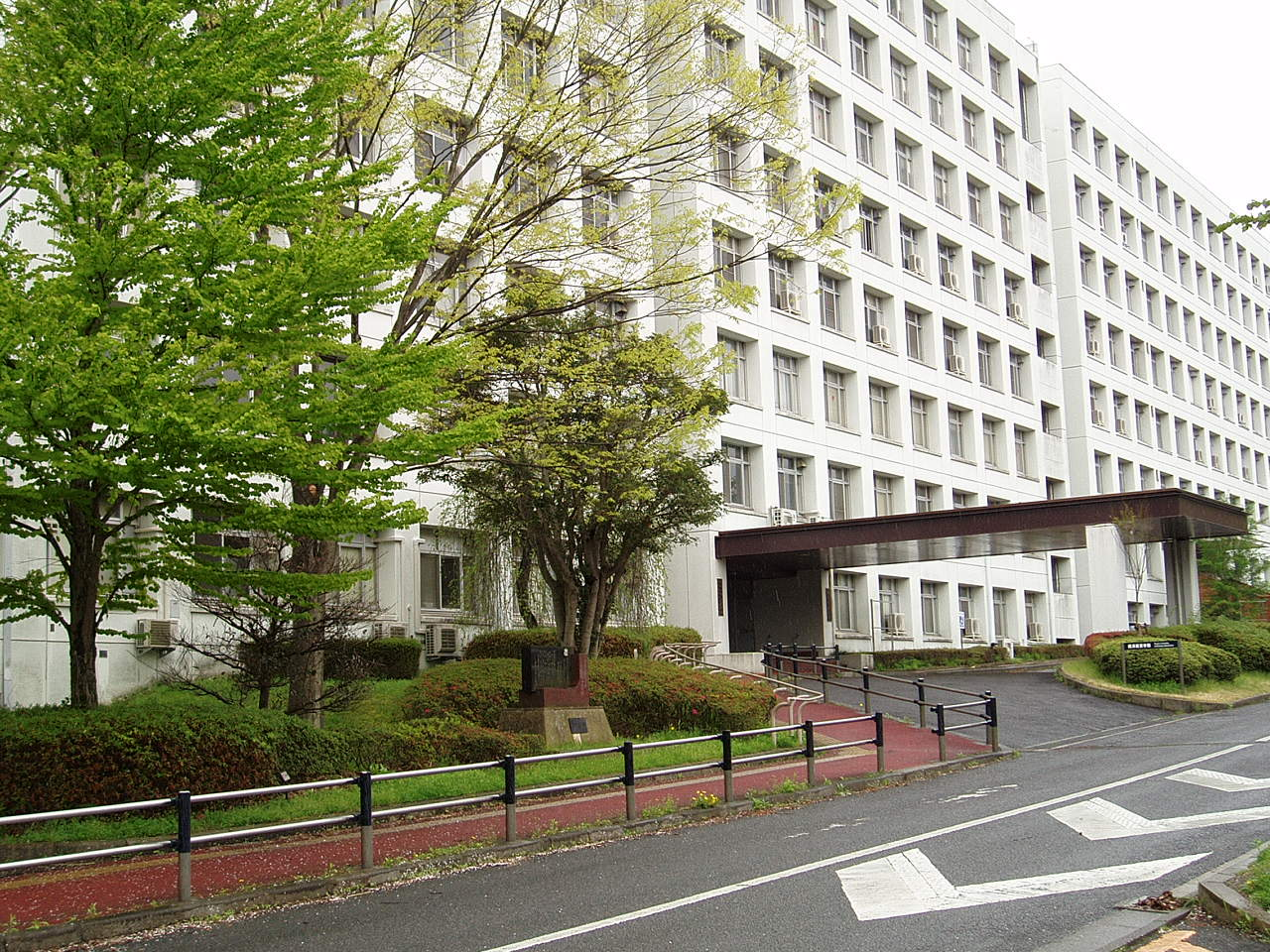 Faculty of Economics and Business Administration, Fukushima University